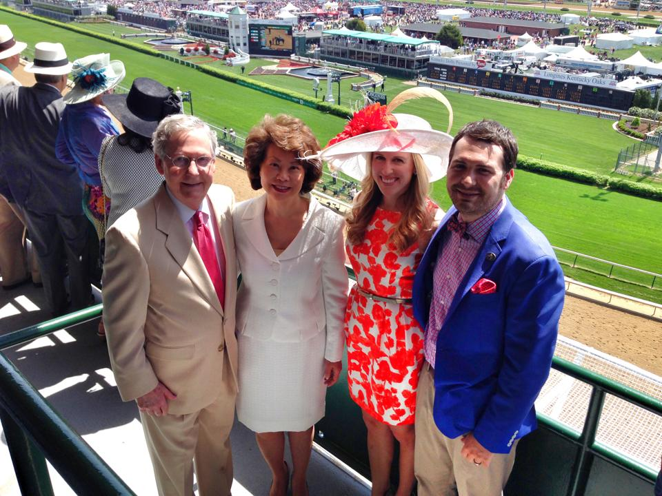 Vincent Harris and Majority Leader Mitch McConnell at the Kentucky Derby with their wives.